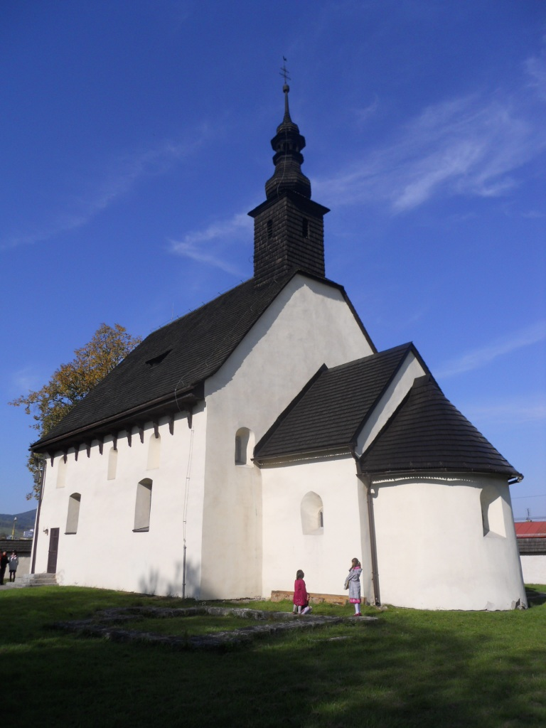 Žilina, St. Stephan, (13th century)